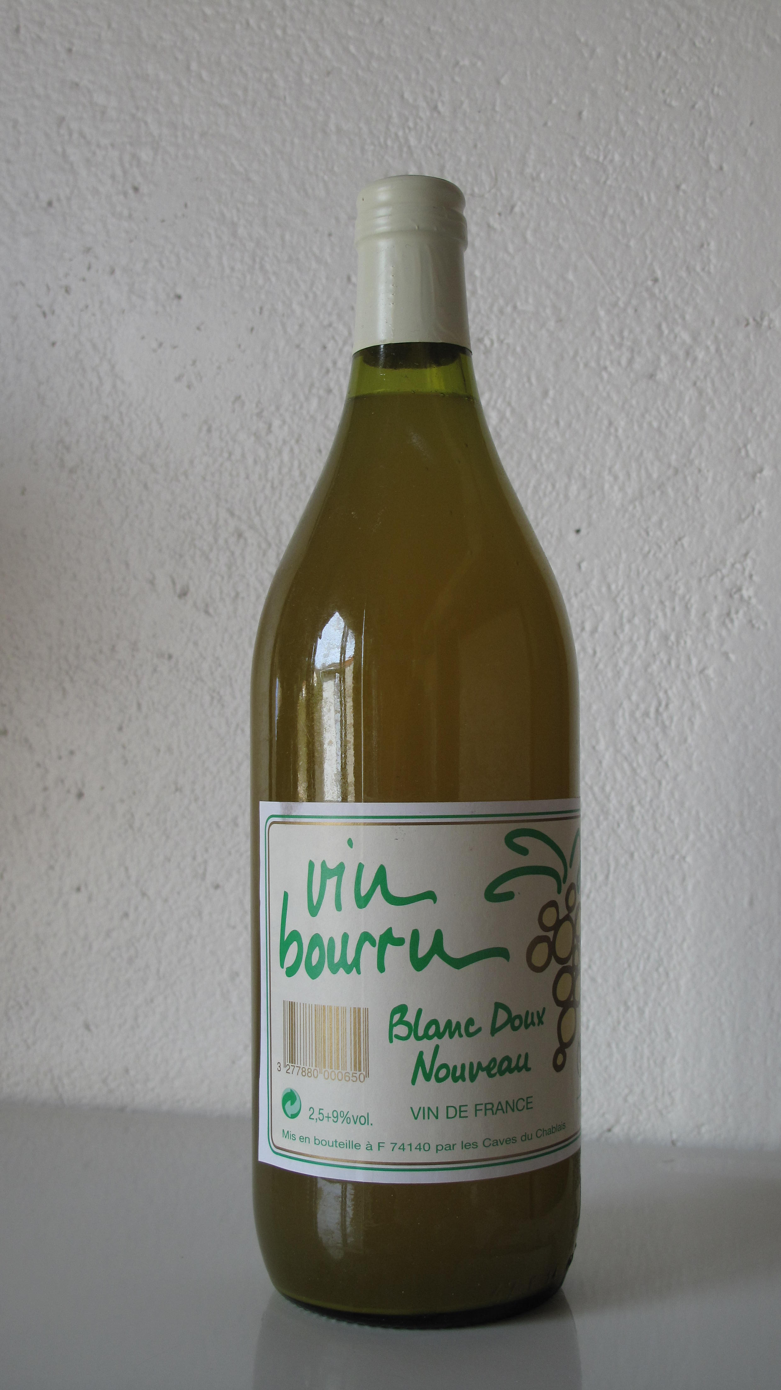 Bottle of "vin bourru" bought in a market. Made in the village of Sciez (Haute-Savoie, France).